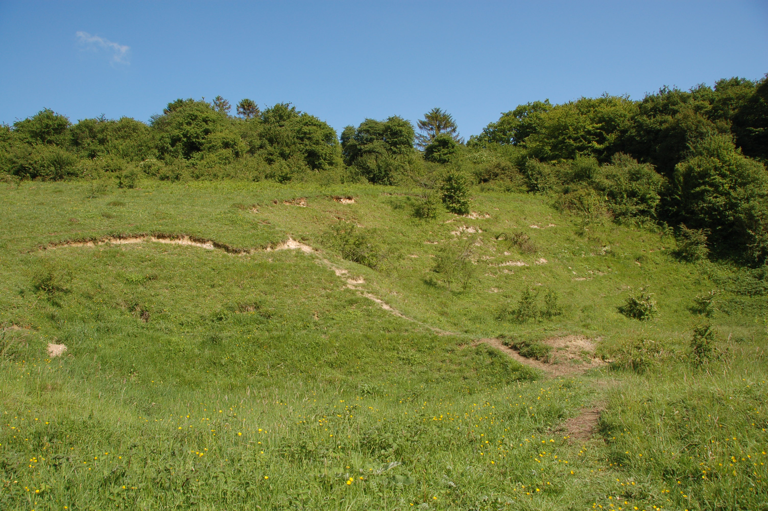 Description: Chalk pit at Park Gate Down, , Source: Self made, Date: 29th May 2007